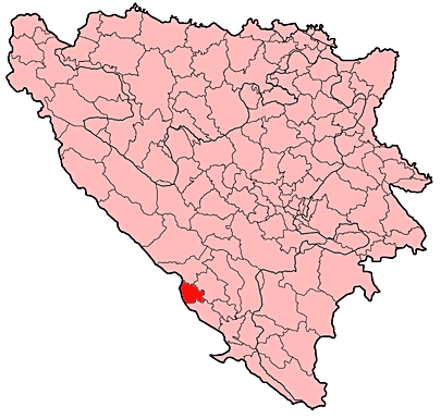 Municipality of Grude in Bosnia and Herzegovina